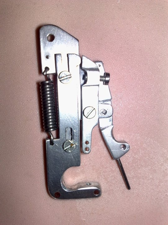 Image of F1A hook used for free flight models.